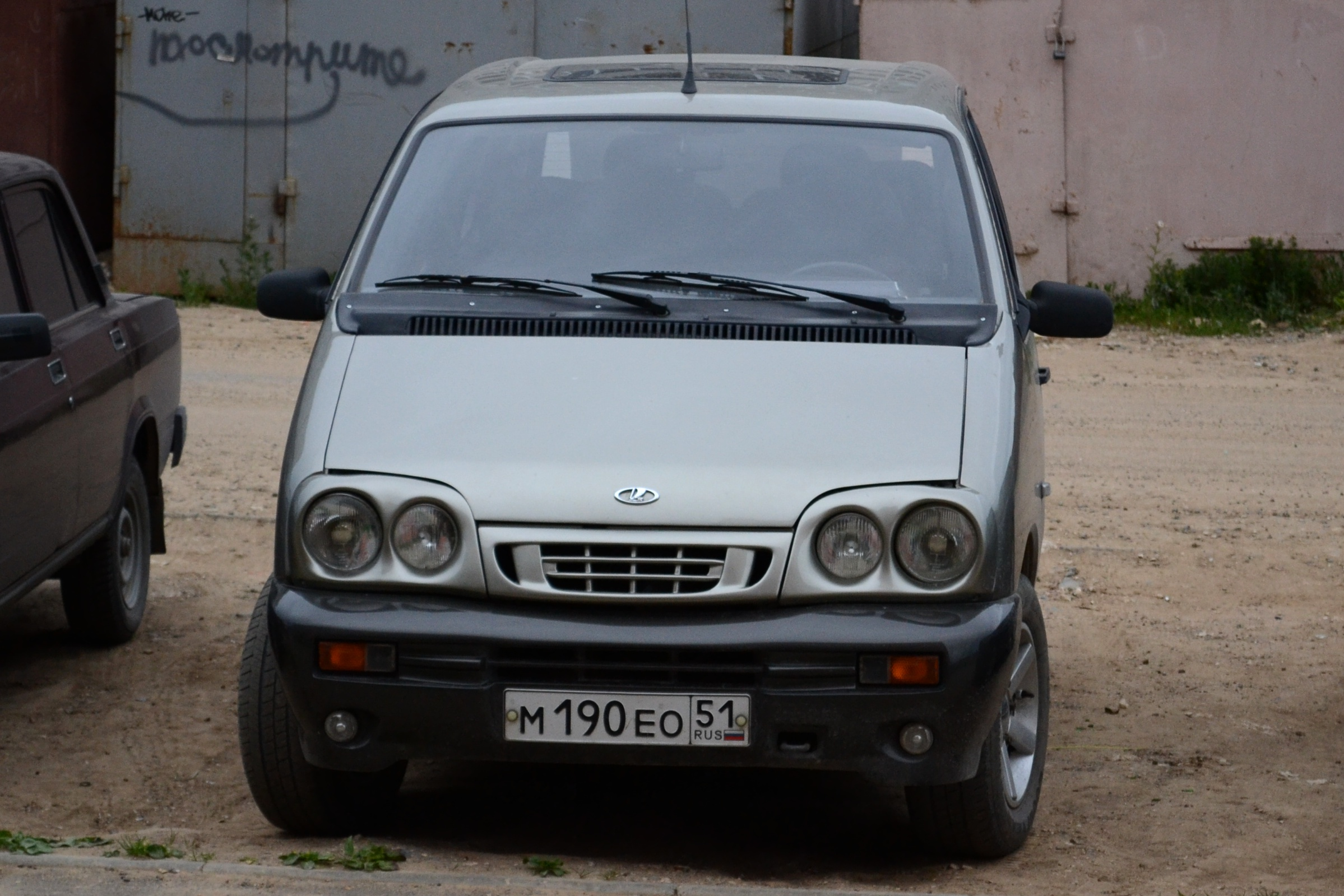 Lada 2120 (early version of front fascia)